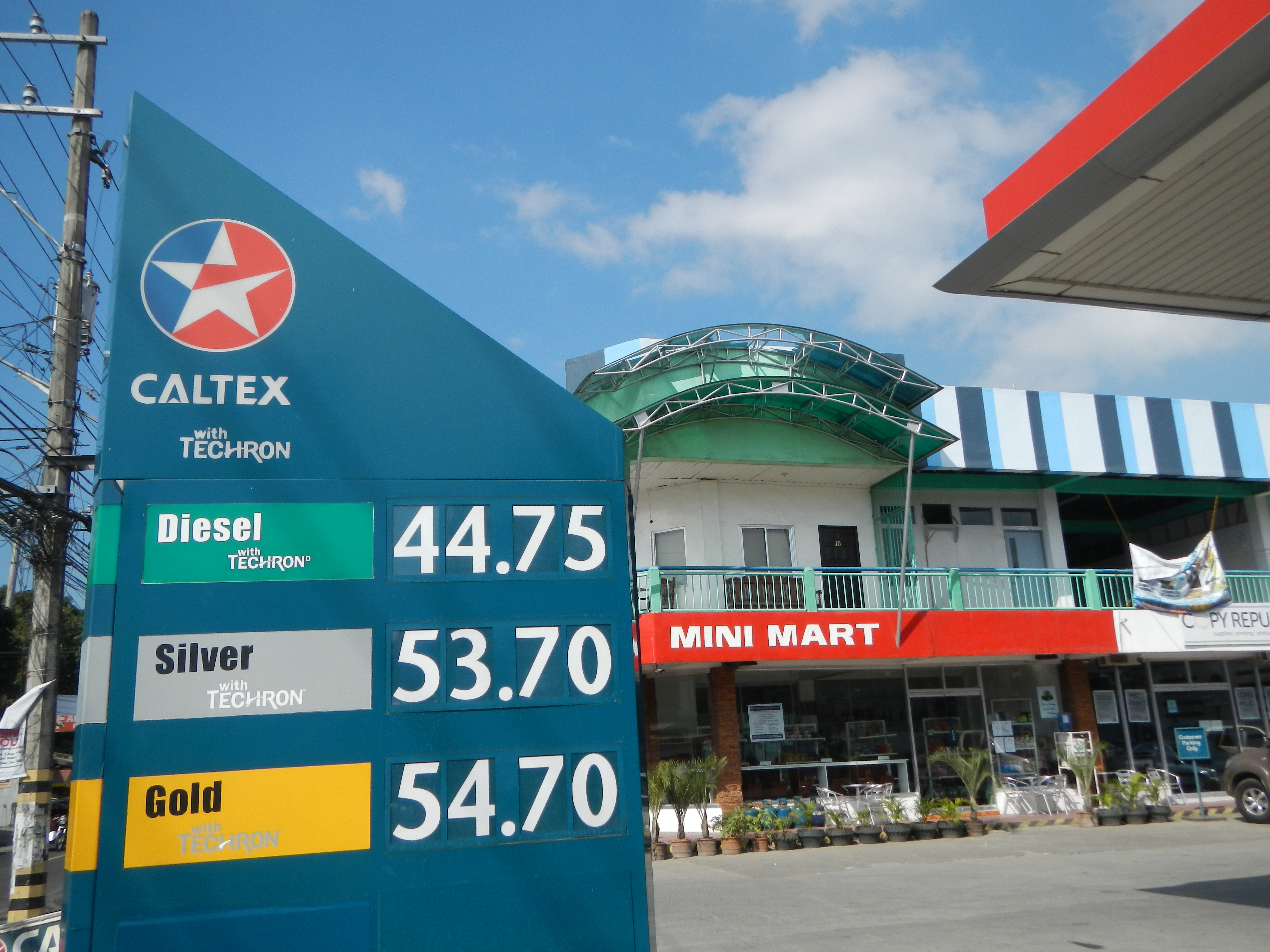 Upload Wizard photos of - (general description of the landmarks, angle by angle photography of the city, town, rivers, bridges and interesting points) -- Pulilan, Bulacan [1] - Robinsons Place Pulilan Robinsons Malls [2], Mini Mart, Pulilan Water District Office and Tank, Academia de Pulilan.